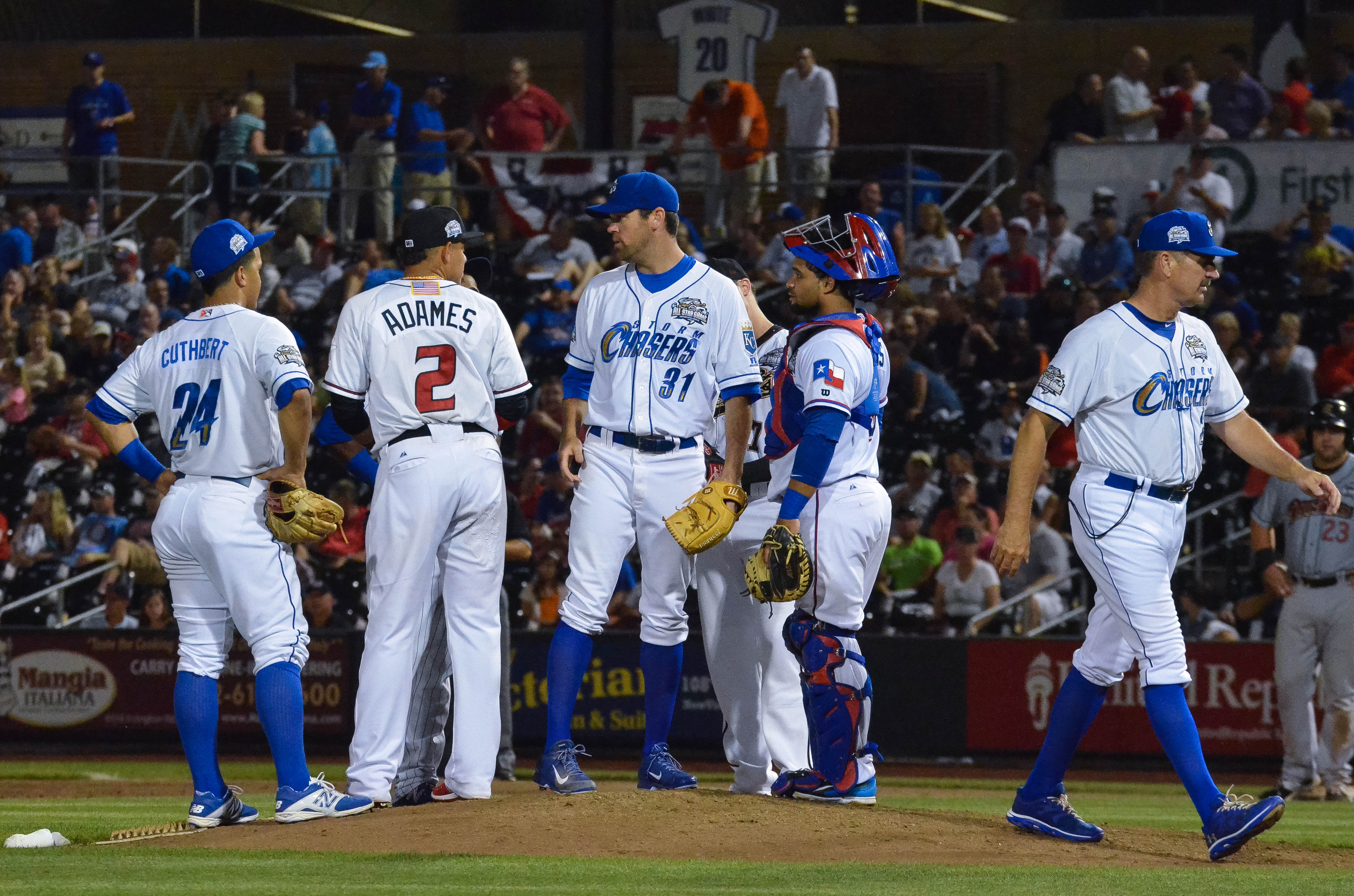 Minda Haas | 2015 USAGE INSTRUCTIONS: You are welcome to share or publish to your own site or social media account, but you MUST credit me, Minda Haas, or by my Twitter handle (@minda33) or Instagram (minda.haas).